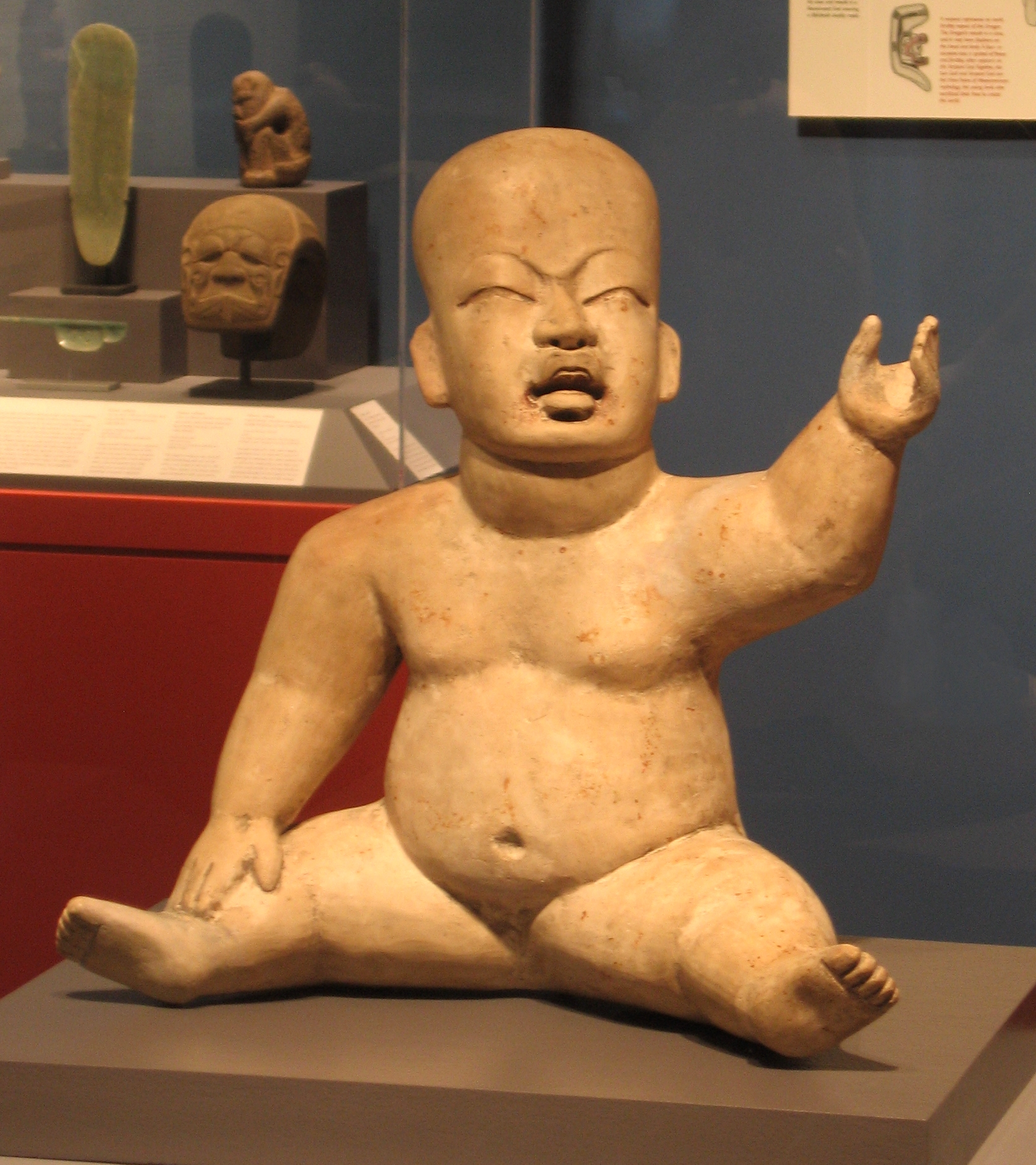 A ceramic figurine showing typical "baby-face" characteristics. 1000 - 300 BC.